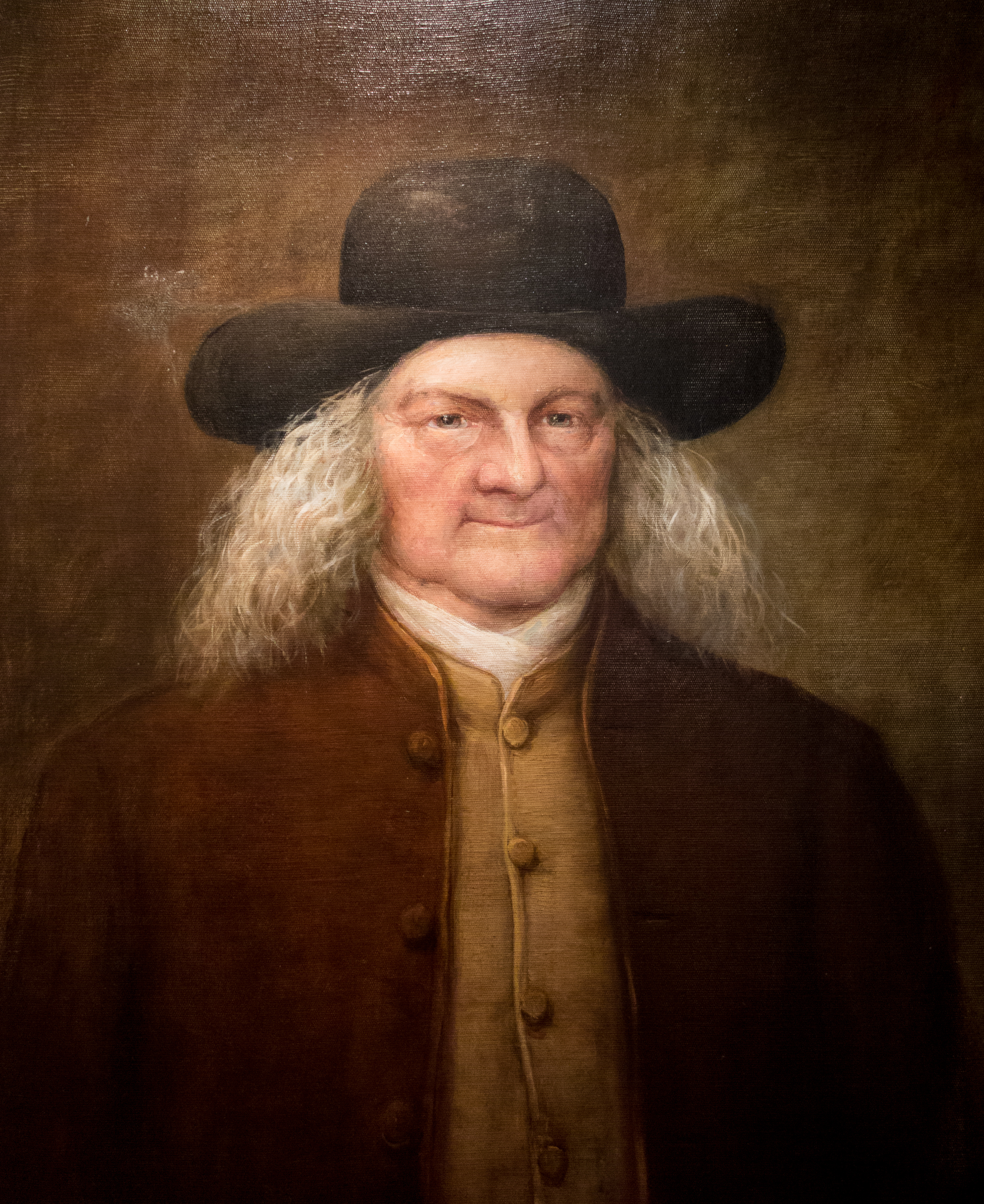 Portrait of Moses Brown at the John Brown House, Providence RI.